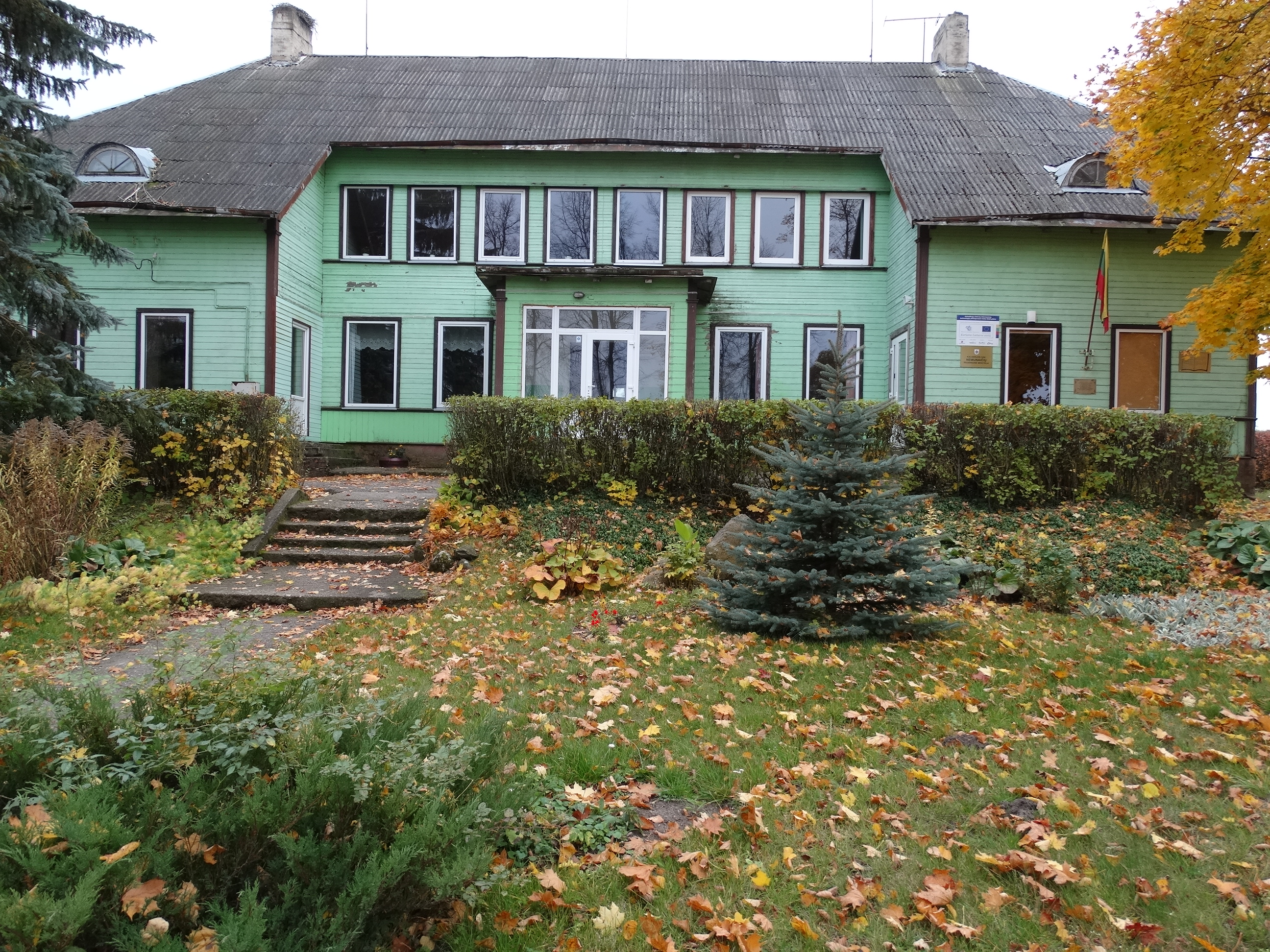 Nemunaičiai basic school, Kalvarija municipality, Lithuania